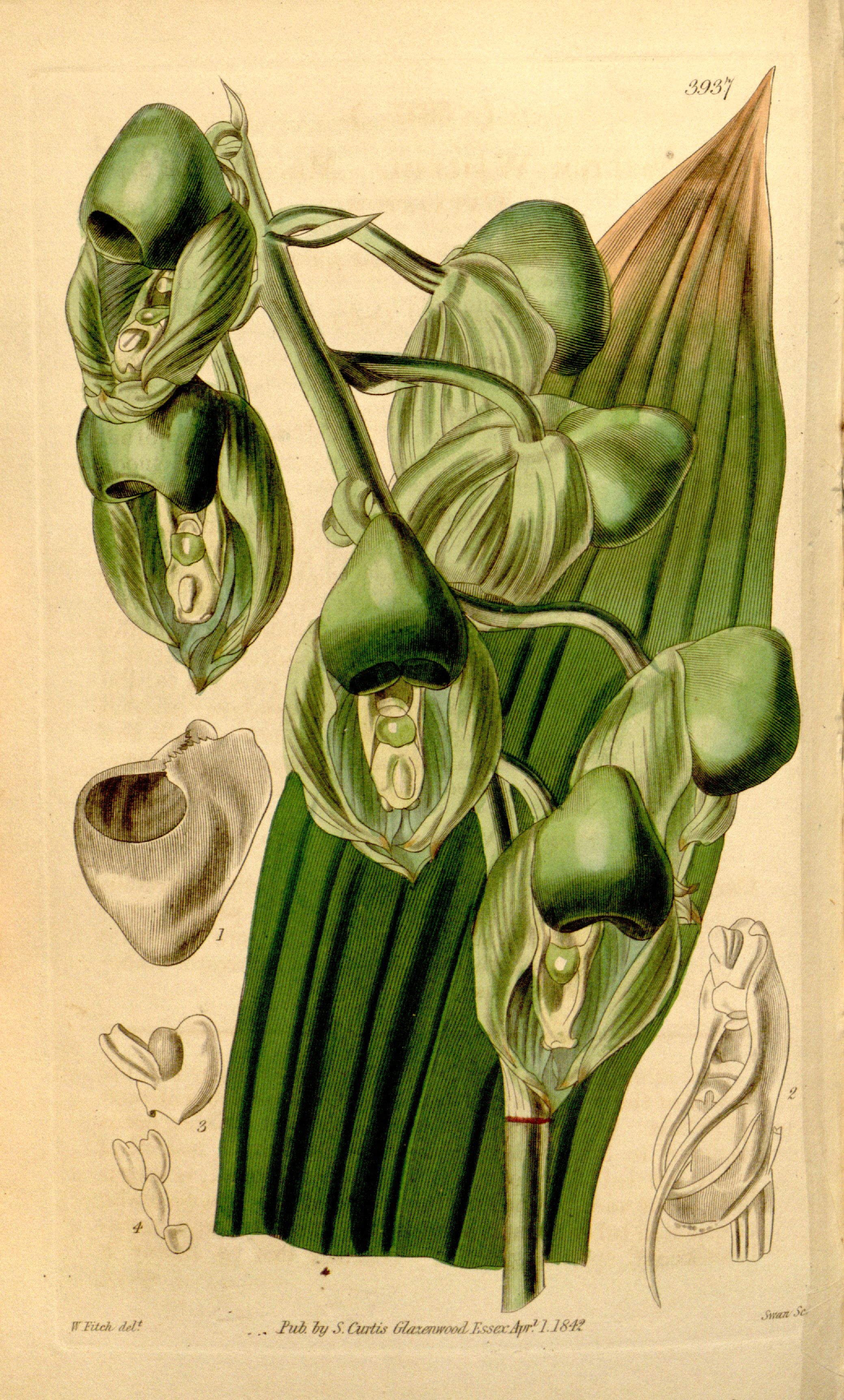 Illustration of Catasetum integerrimum (as syn. Catasetum wailesii), female flower